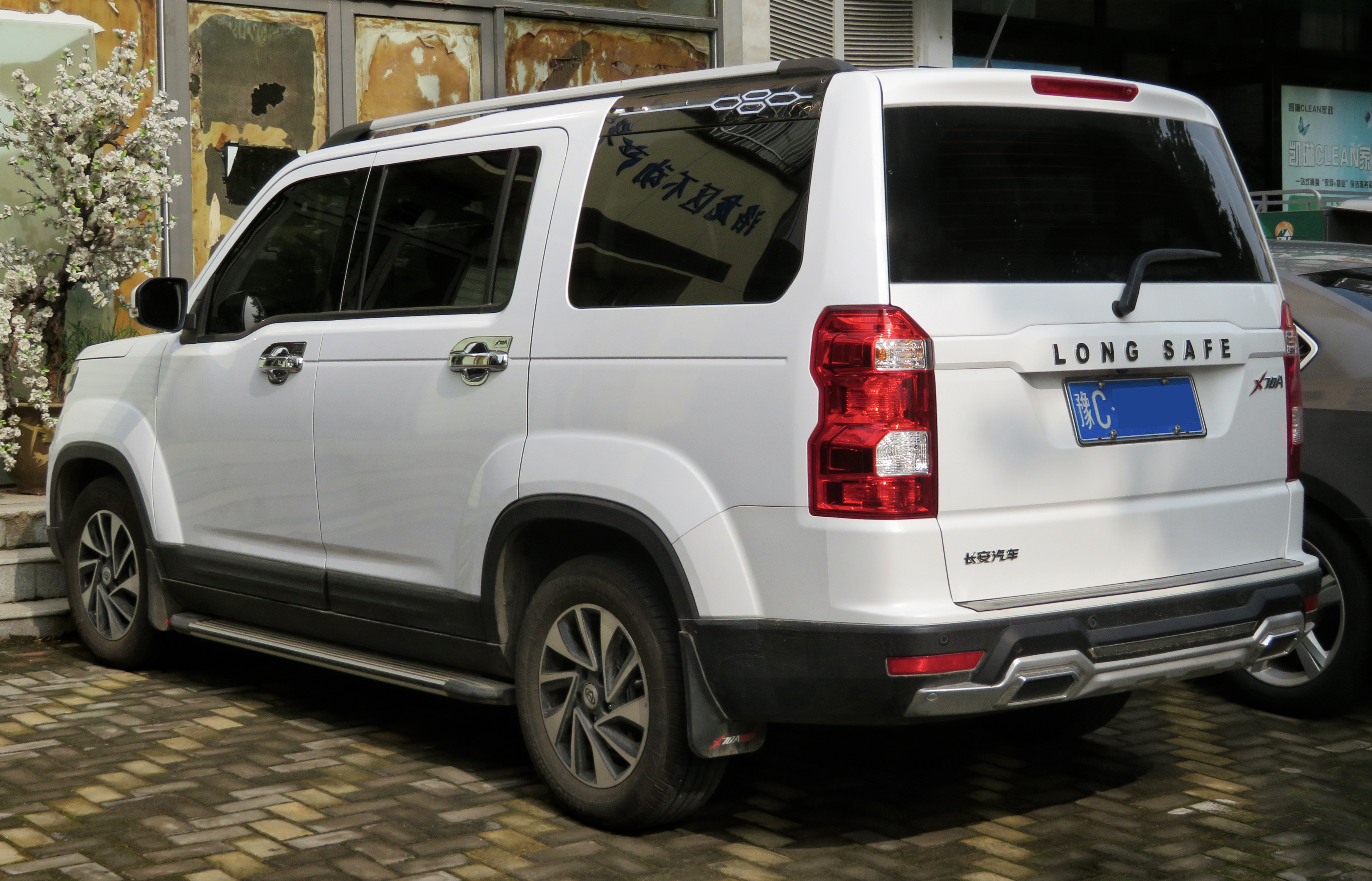 A 2018 Chang'an (Chana) Oushang X70A photographed in Xigong District, Luoyang, Henan province, China